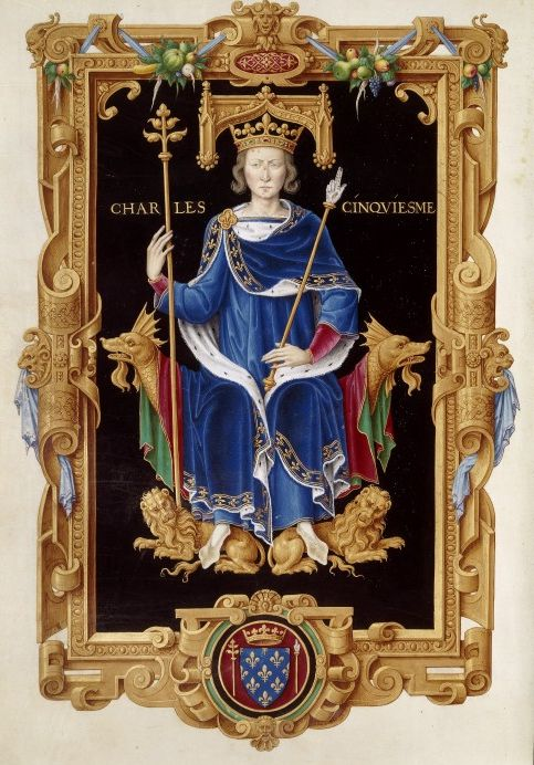 Charles the Wise of France From Recueil des rois de France. (FR 2848, f� 150)., by Jean de Tillet (16th century). In the Bibliothèque Nationale de France.